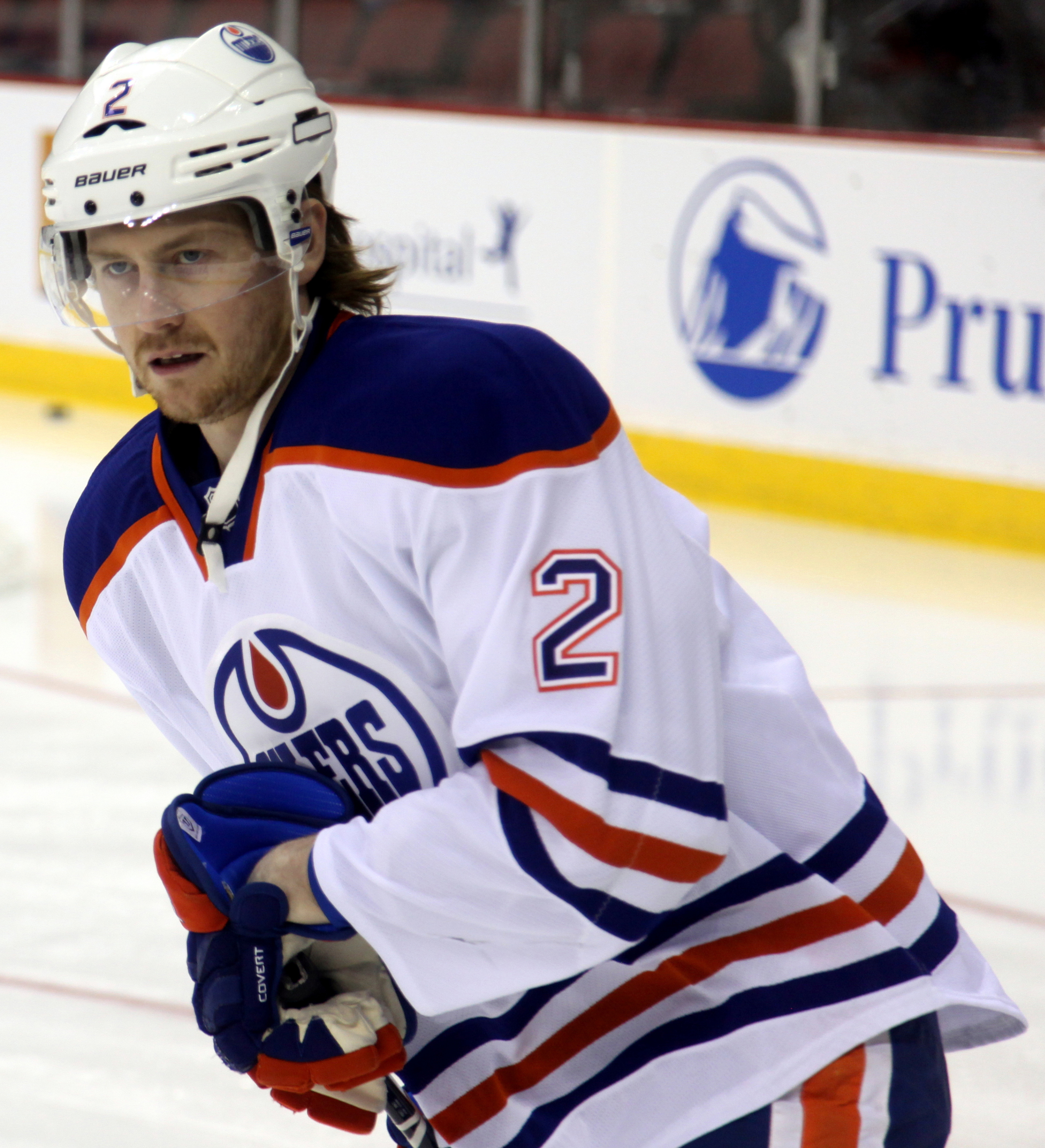 Jeff Petry in February 2014.